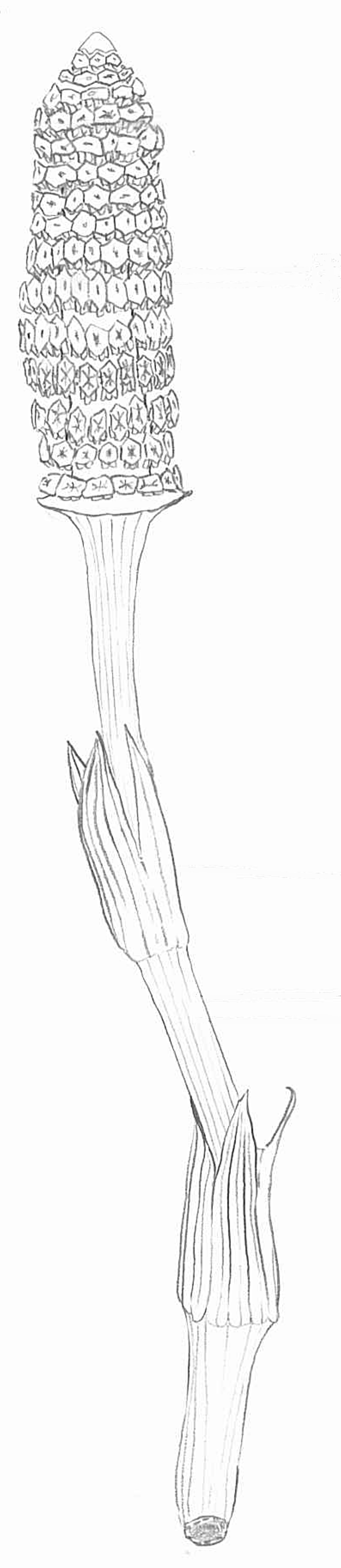 Drawing of a fertile stem of Equisetum arvense, Order Equisetales, approximately 10 cm as drawn. At the top is the strobilus, that consists of the axis (inside) and 15-20 horizontal circles of about 20 sporangiophores. Lower down the stem, two sheaths of merged microphyls. The stem has lengthwise many strong ridges.